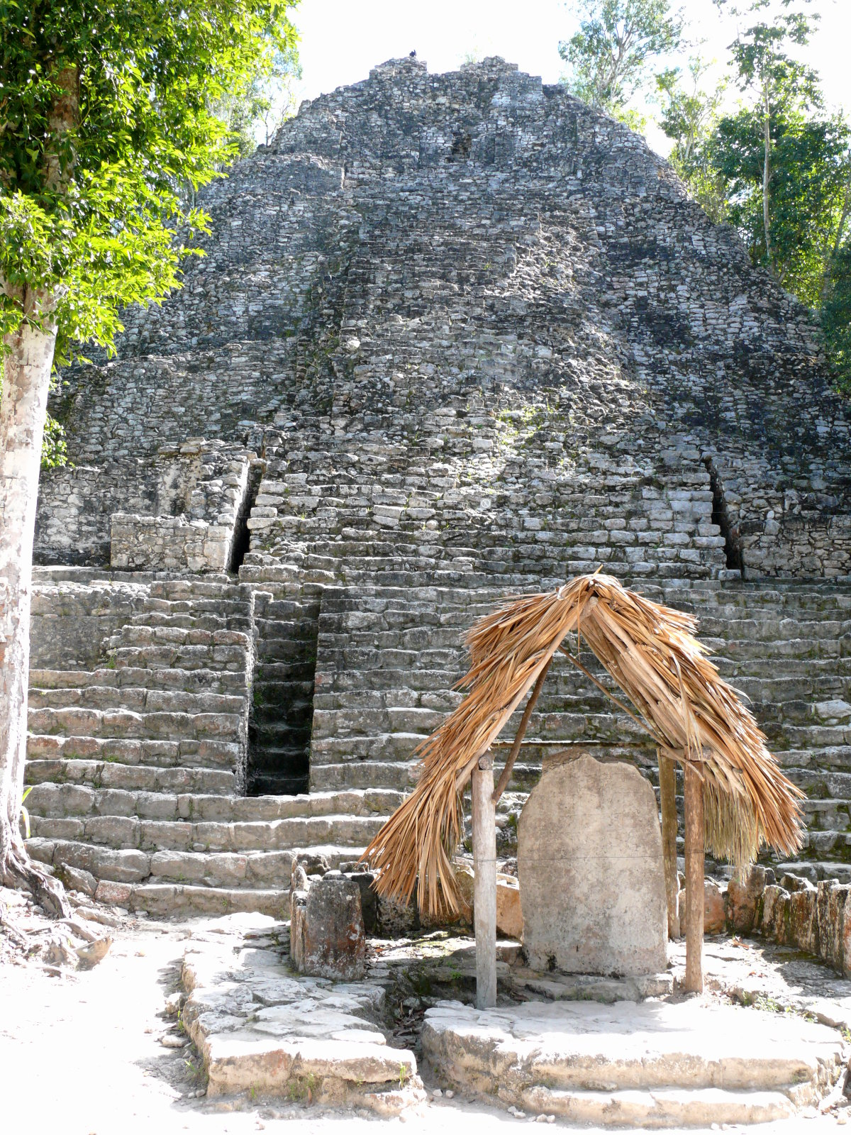 The Cobá Group (or Iglesia) pyramid is part of the Mayan ruins at the Coba archeological site. Photo taken with a Panasonic Lumix DMC-FZ50 in Quintana Roo, Mexico.